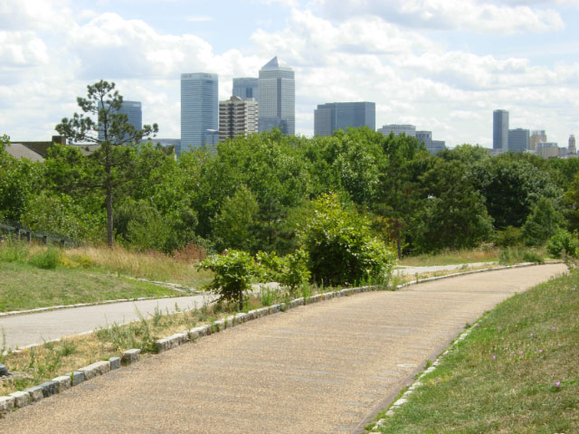 Mile End Park The path and cycle track lead down off the Green Bridge into the southern part of Mile End Park. In the distance are the high rise buildings of Canary Wharf.